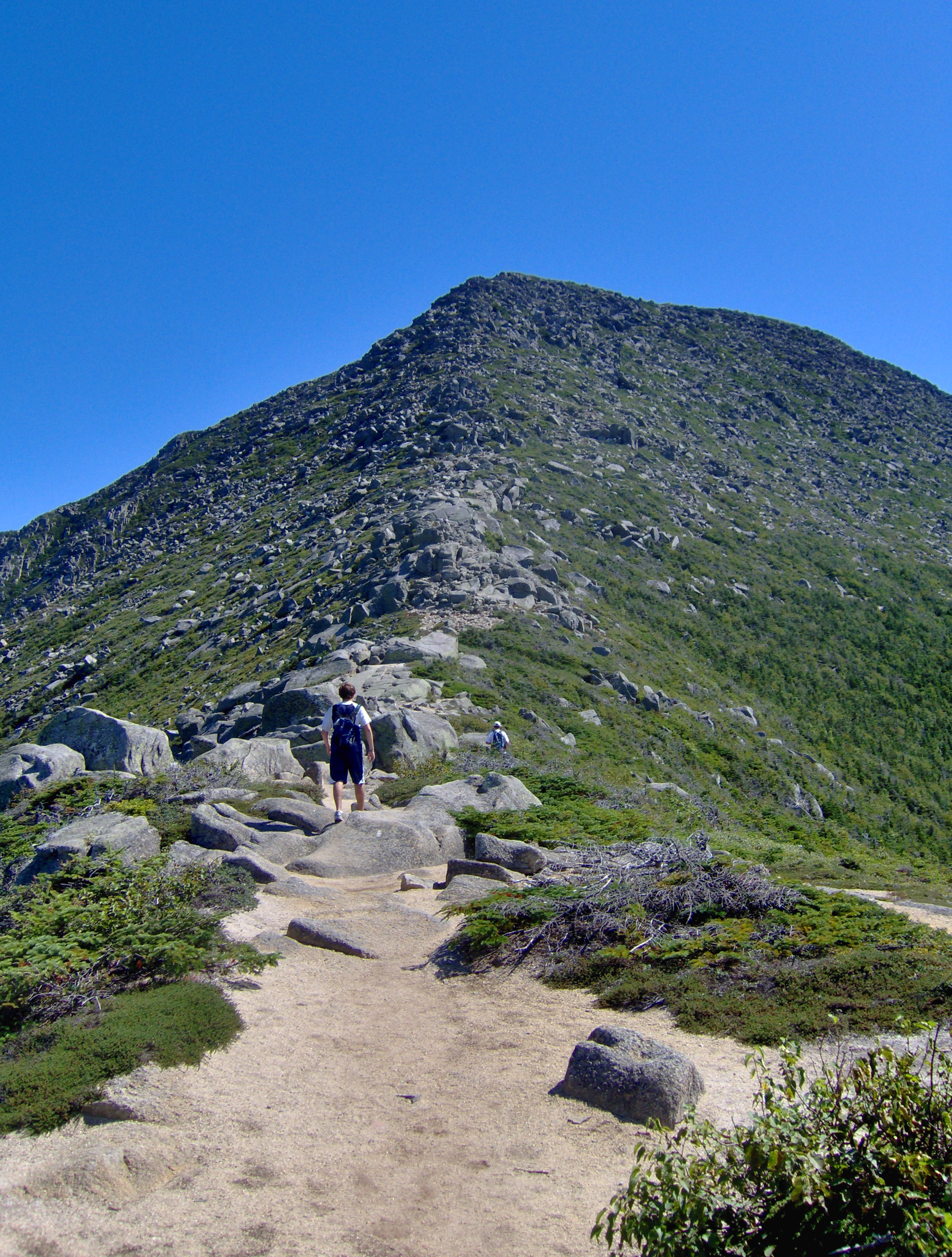 Looking up from the Hunt Spur towards the Gateway from the Hunt Trail on Mount Katahadin, Maine, USA. The Hunt Trail is also the Appalachian Trail.